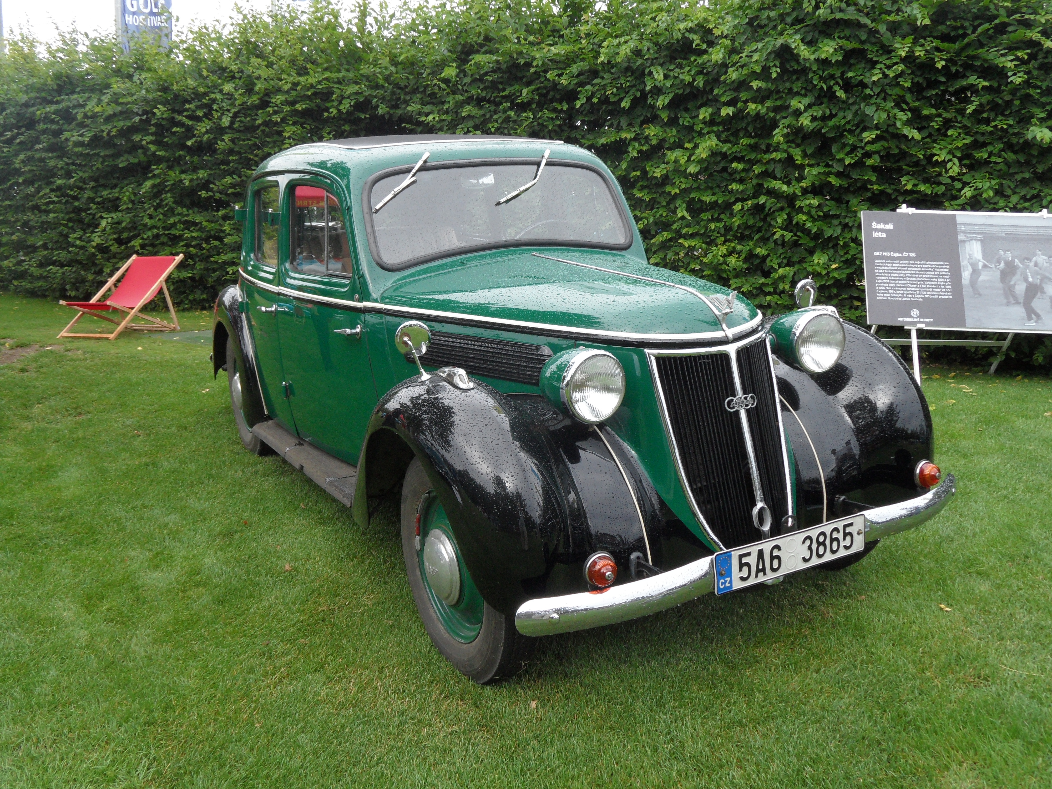 Exhibition Automobilové klenoty 2019. A. Cars from Films: Wanderer, 1938: movie Fotograf. Prague, the Czech Republic.